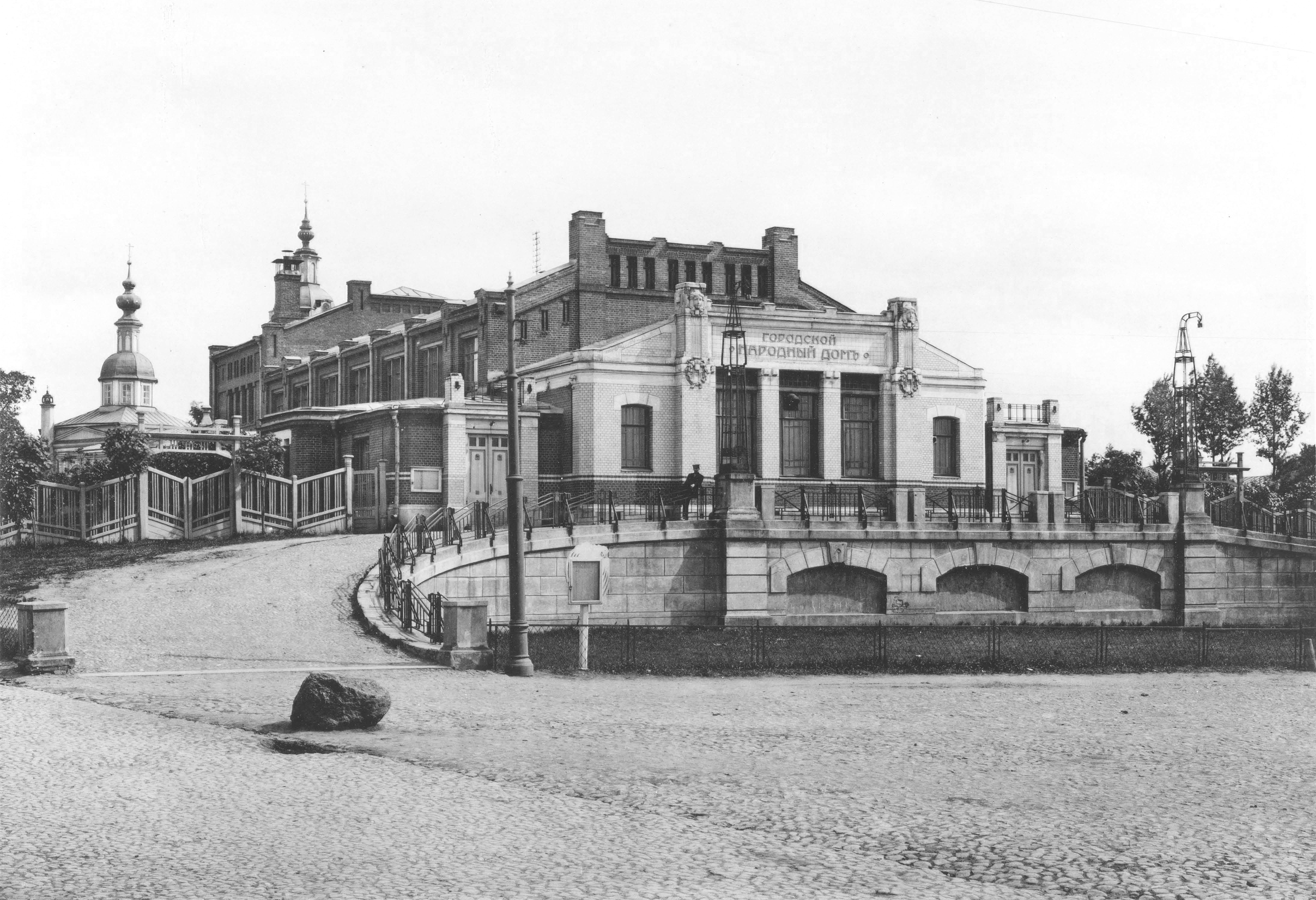 Vvedensky Narodny Dom (a community center with theatre) by I.A. Ivanov-Schitz. In 1940s, it was rebuilt into this: Image:Moscow, Zhuravleva Square Theater.jpg.